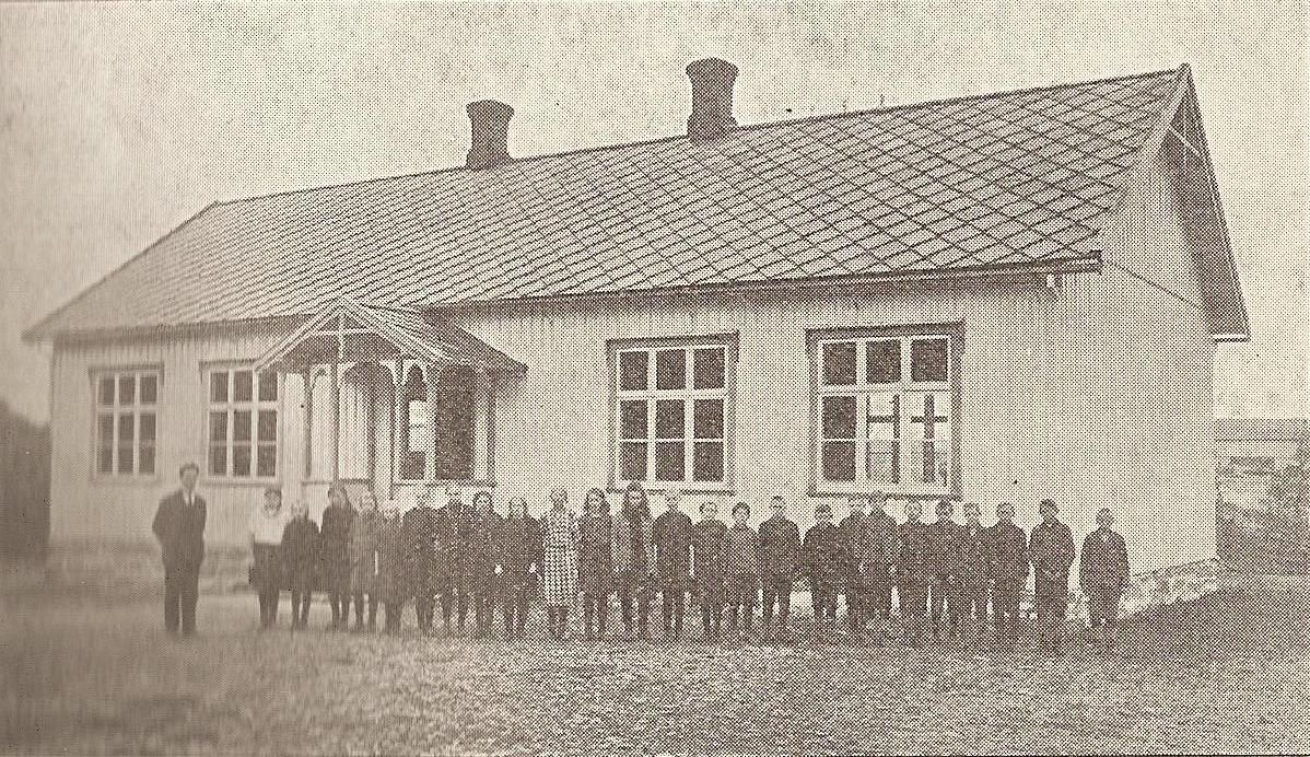 Ragnheim School in Skatval in Norway in the 1920's. Th teacher (outer left) is P. Aune.